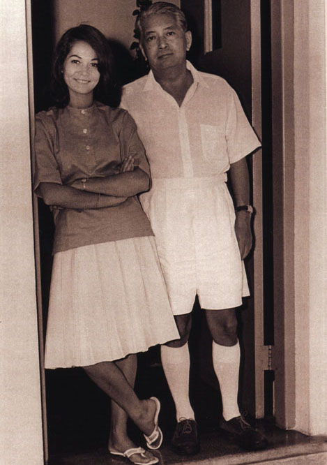 Nancy Kwan at home with her father, Kwan Wing Hong